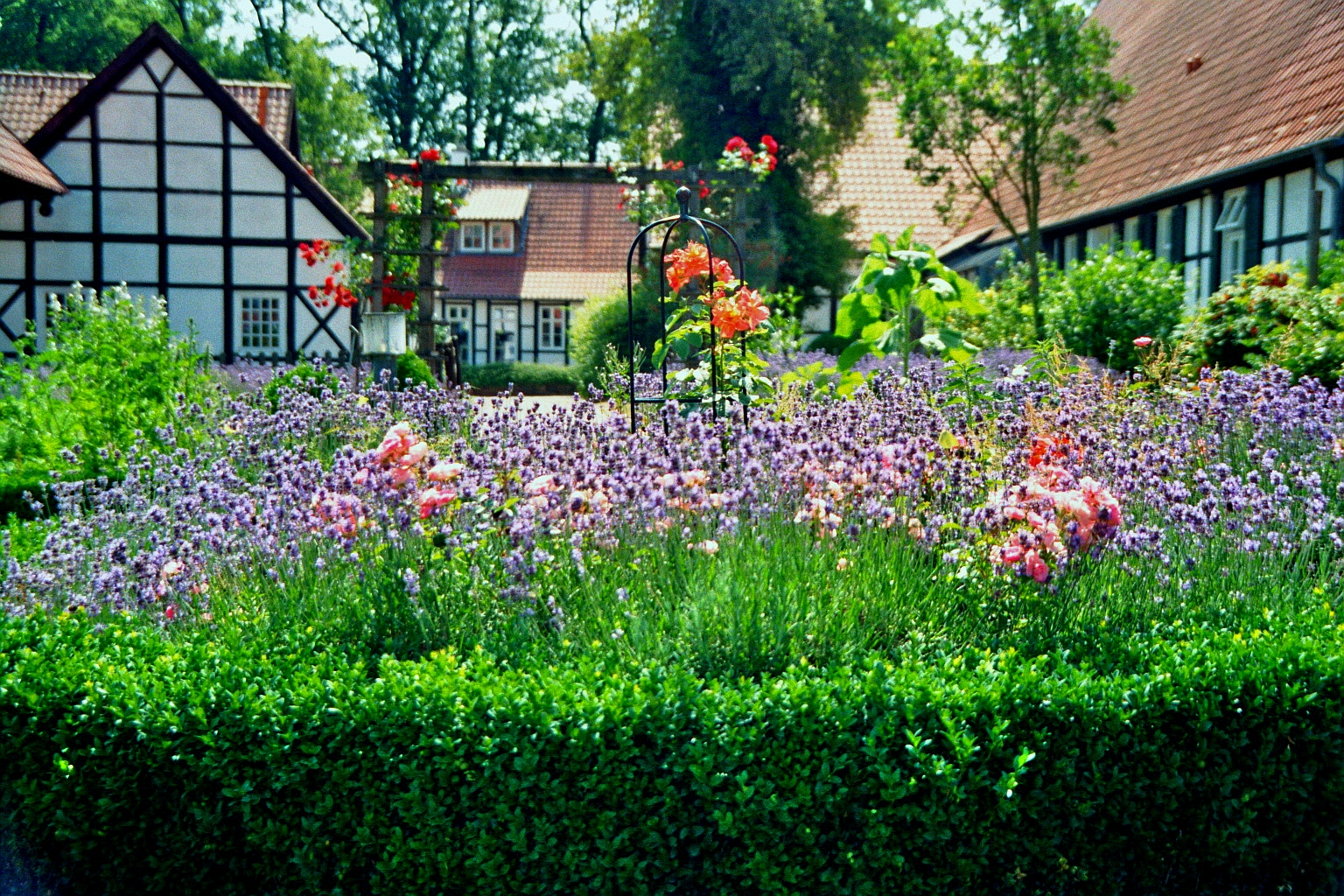 Garden at the Schultenhof in Mettingen, Kreis Steinfurt, North Rhine-Westphalia, Germany.